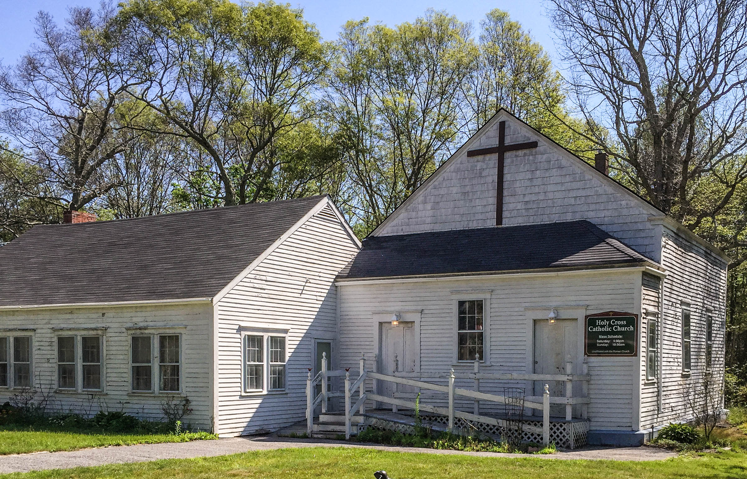 Former Hornbine Baptist Church in Rehoboth, Massachusetts is now Holy Cross Catholic Church